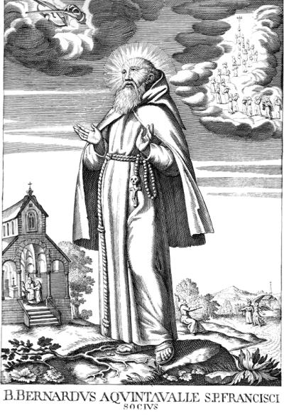 Bernard of Quintavalle (print, XIX century)